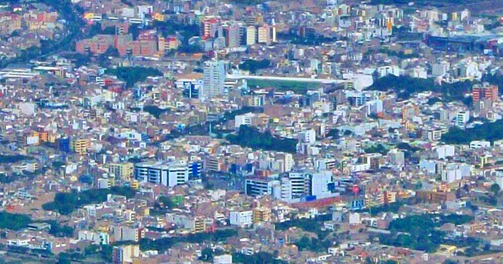 Panorámica de Trujillo